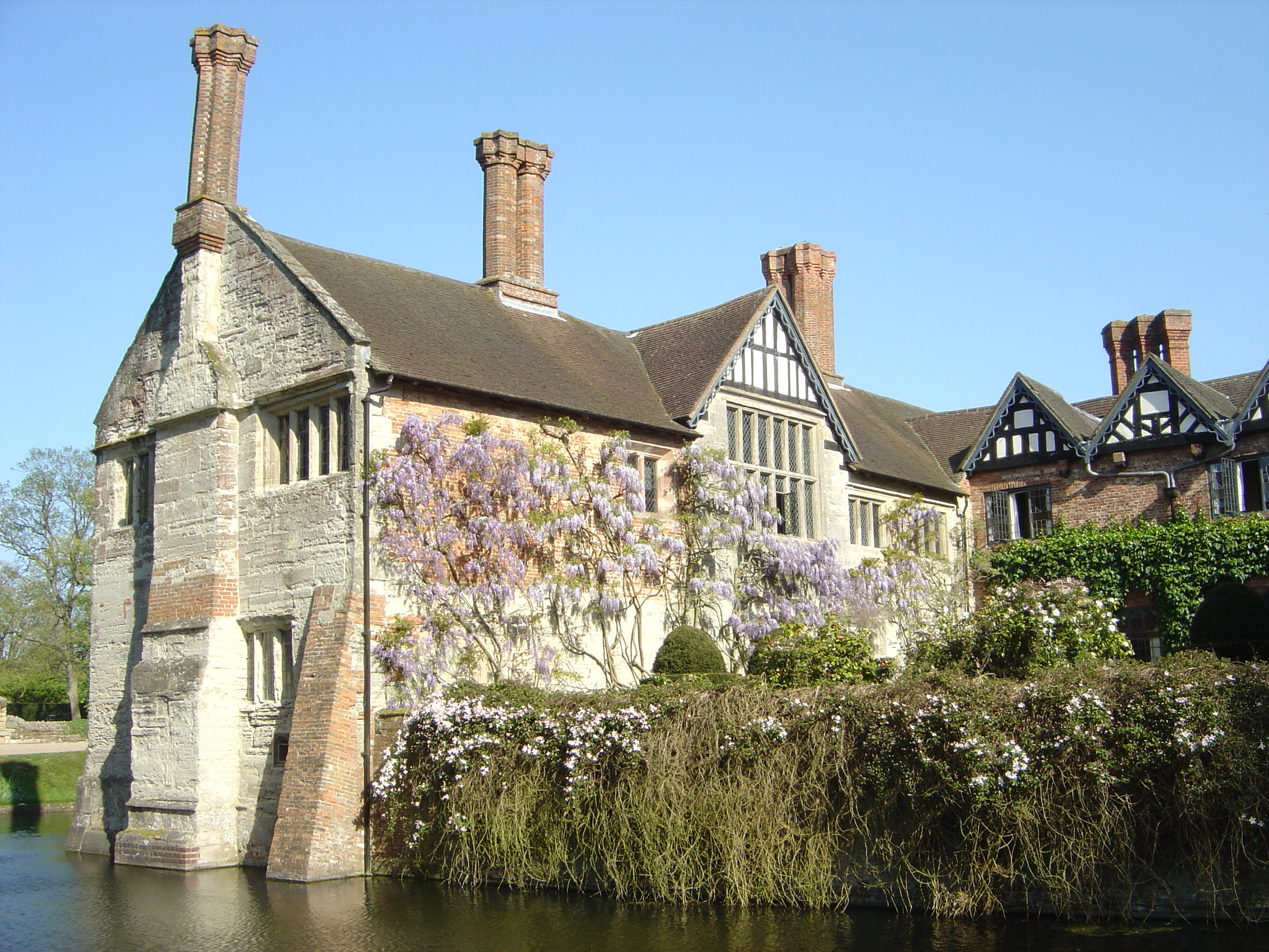 Baddesley Clinton Left Side Facing From the Entrance